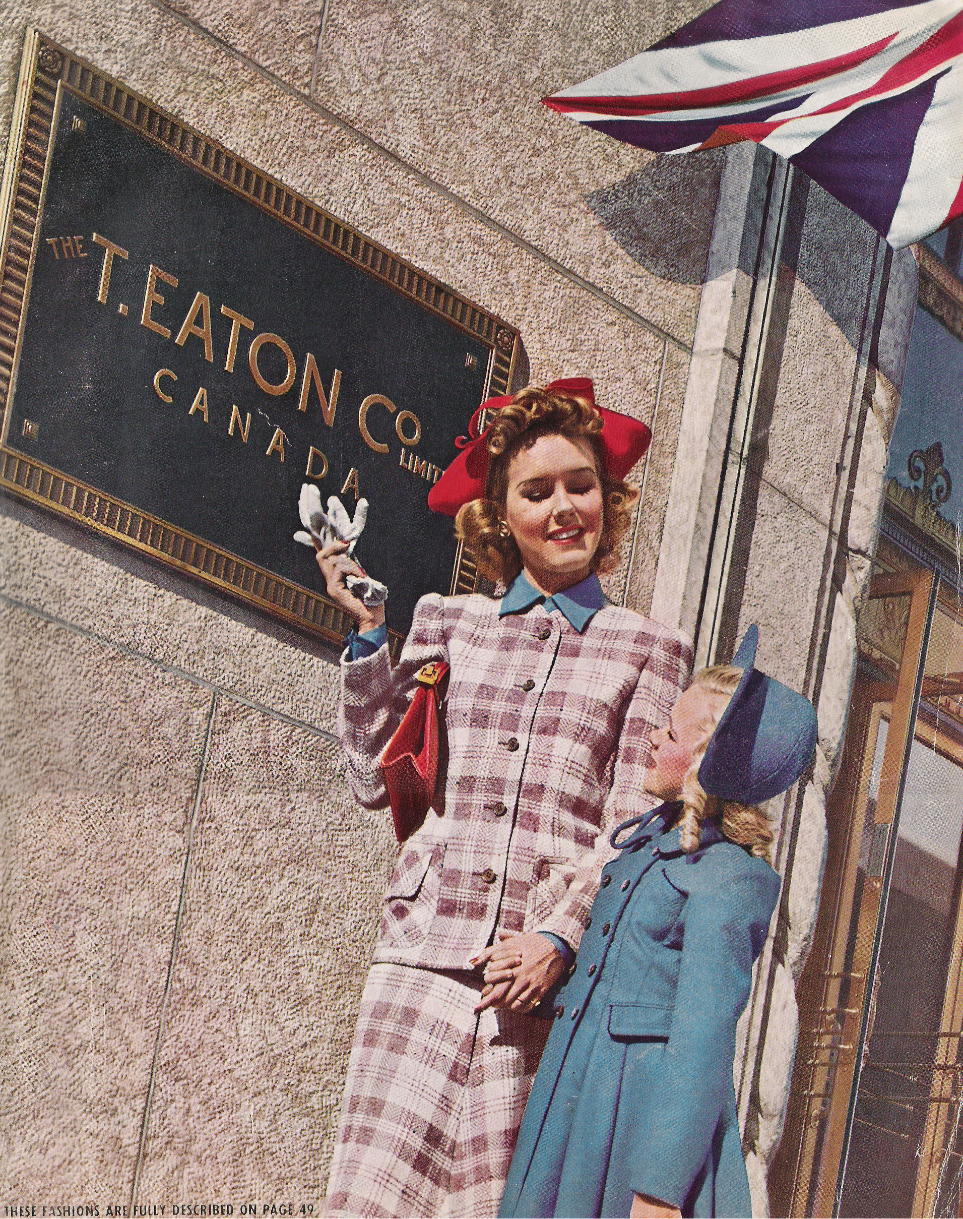 Photograph on the front cover of the Eaton's department store Spring and Summer Catalogue of 1942. Photograph is taken in front of Eaton's College Street store in Toronto, Canada.